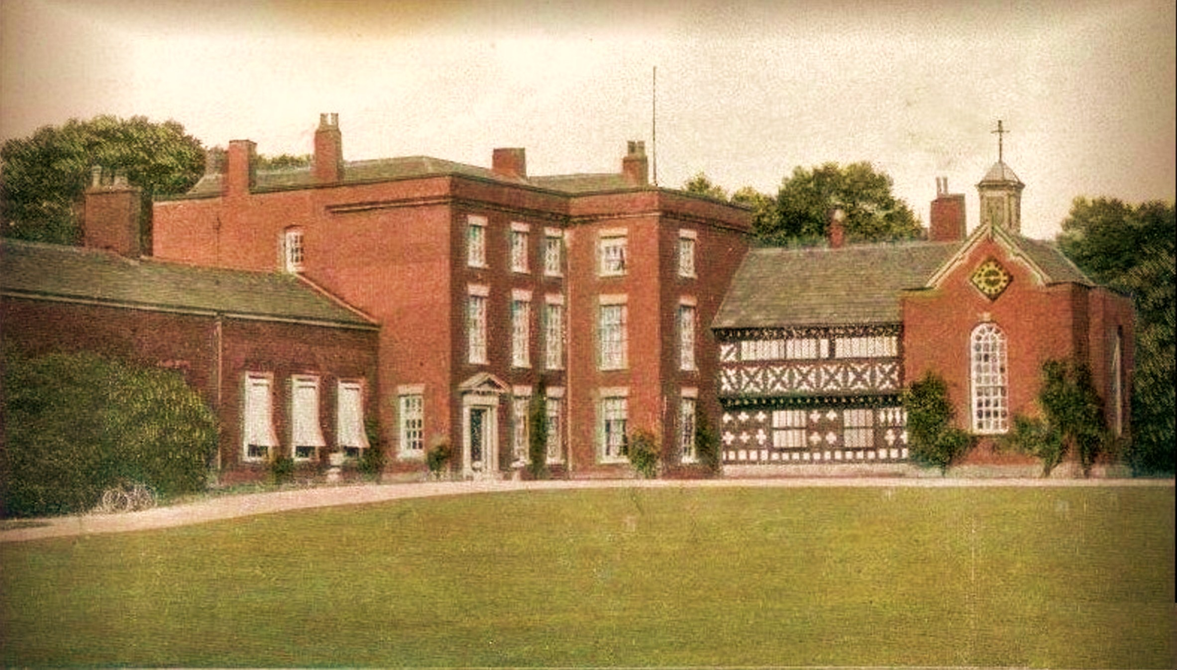 Postcard of Standish Hall in the field of Standish, destroyed in 1921 after the death the year before of Henry Noailles Widdrington Standish, last Lord of the Manor of Standish.